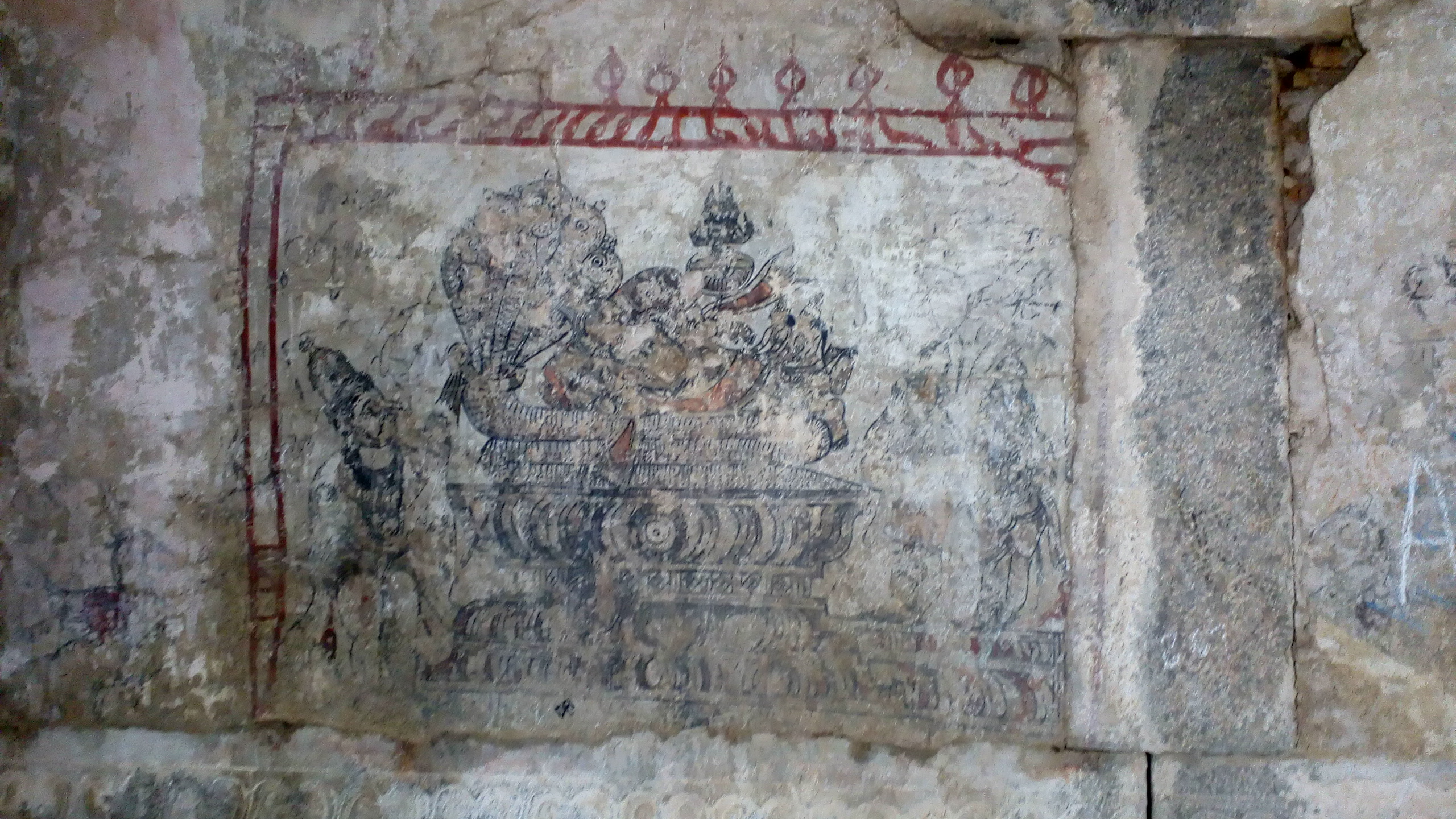 This drawing was spotted on the side of marriage hall while claimbing the stairs. Lord Perumal is the supreme God of Vainavas. This may be a proof that during once, the vinava kings may also have ruled this fort.